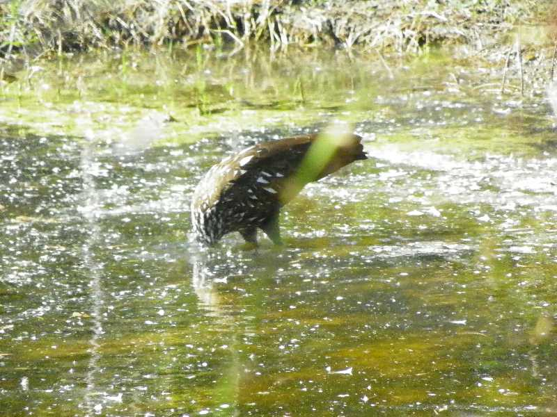 Photo of Limkin fishing taken at Riverbend Park, Jupiter, FL.